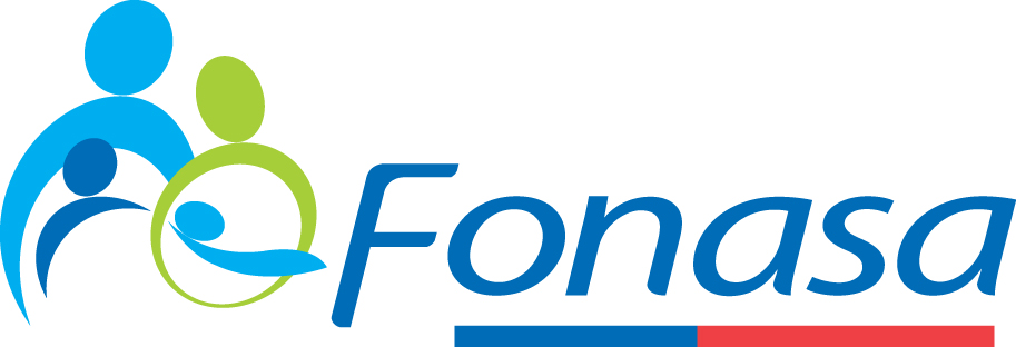 Logo of National Health Fund